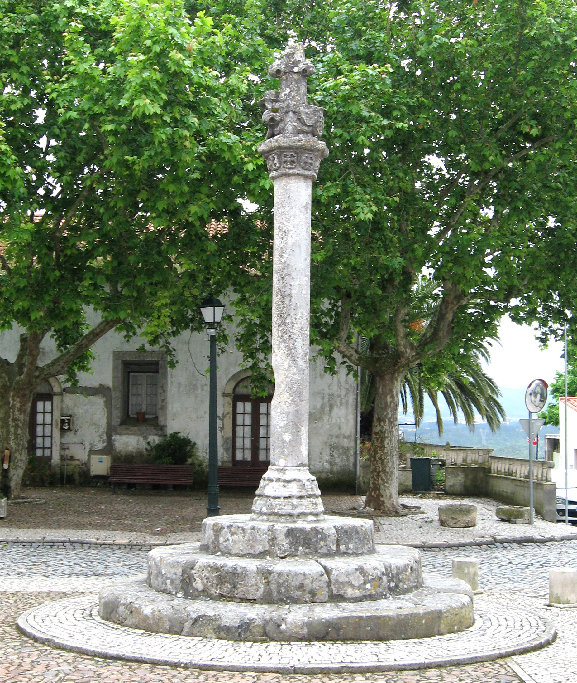 Aljubarrota, Portugal, pillory, year 1514, for jurisdiction of monastery of Alocbaça